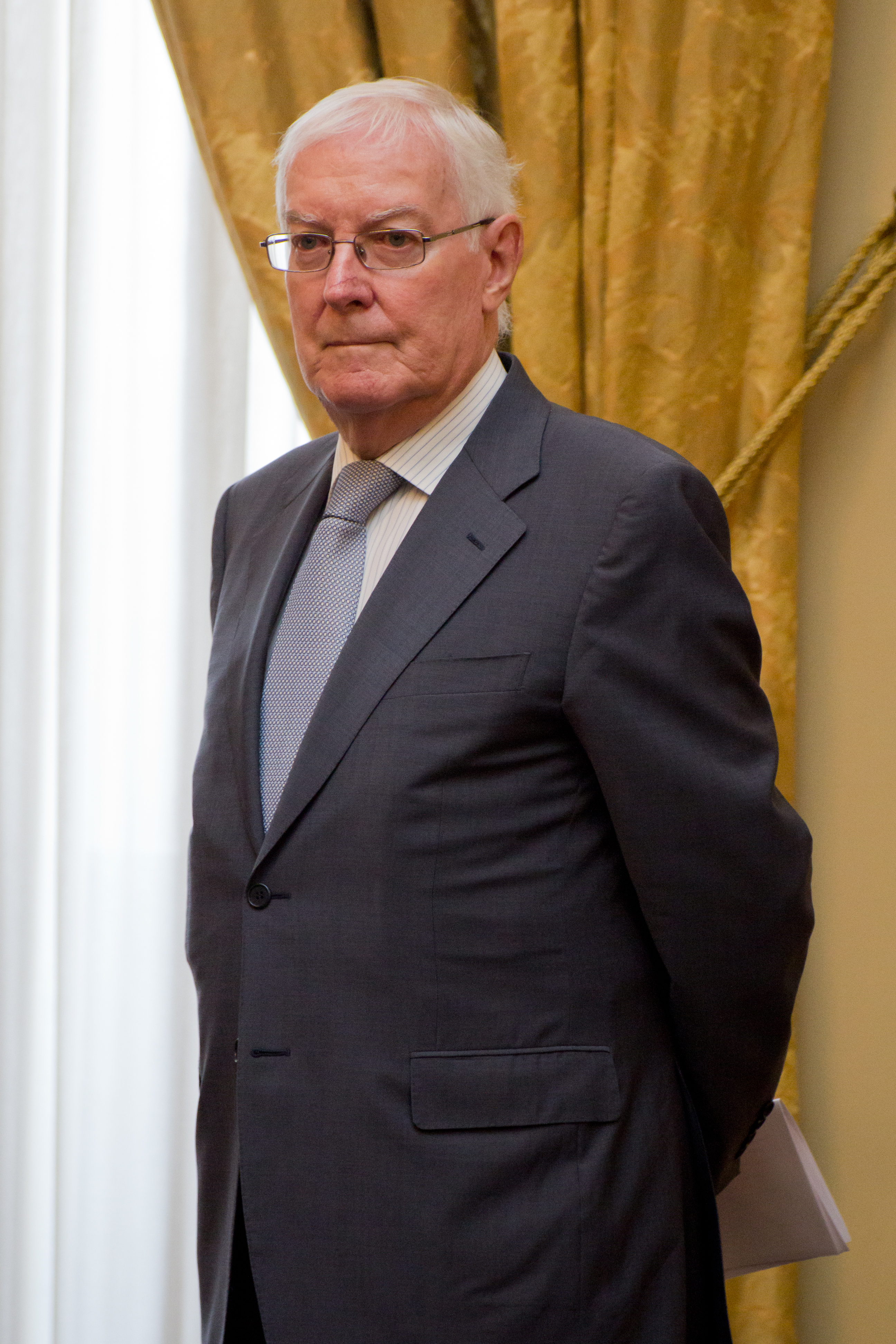 Víctor García de la Concha at the Wiki Editathon Madrid 2014.